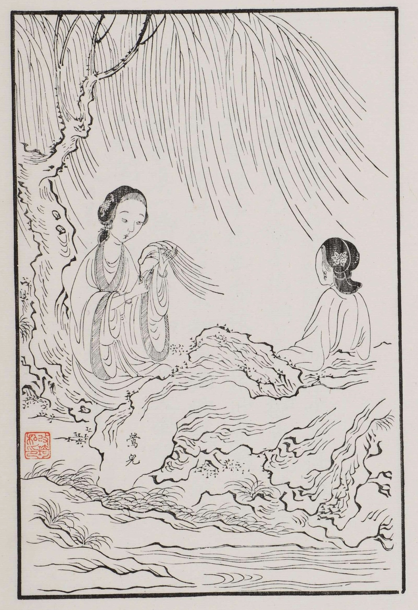 Ying Er